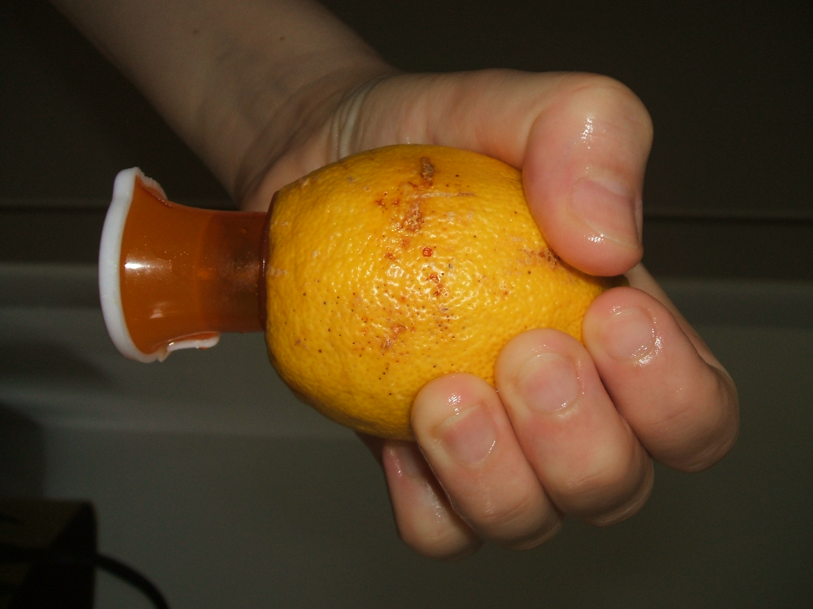 A citrus press bought for 1 Lira.